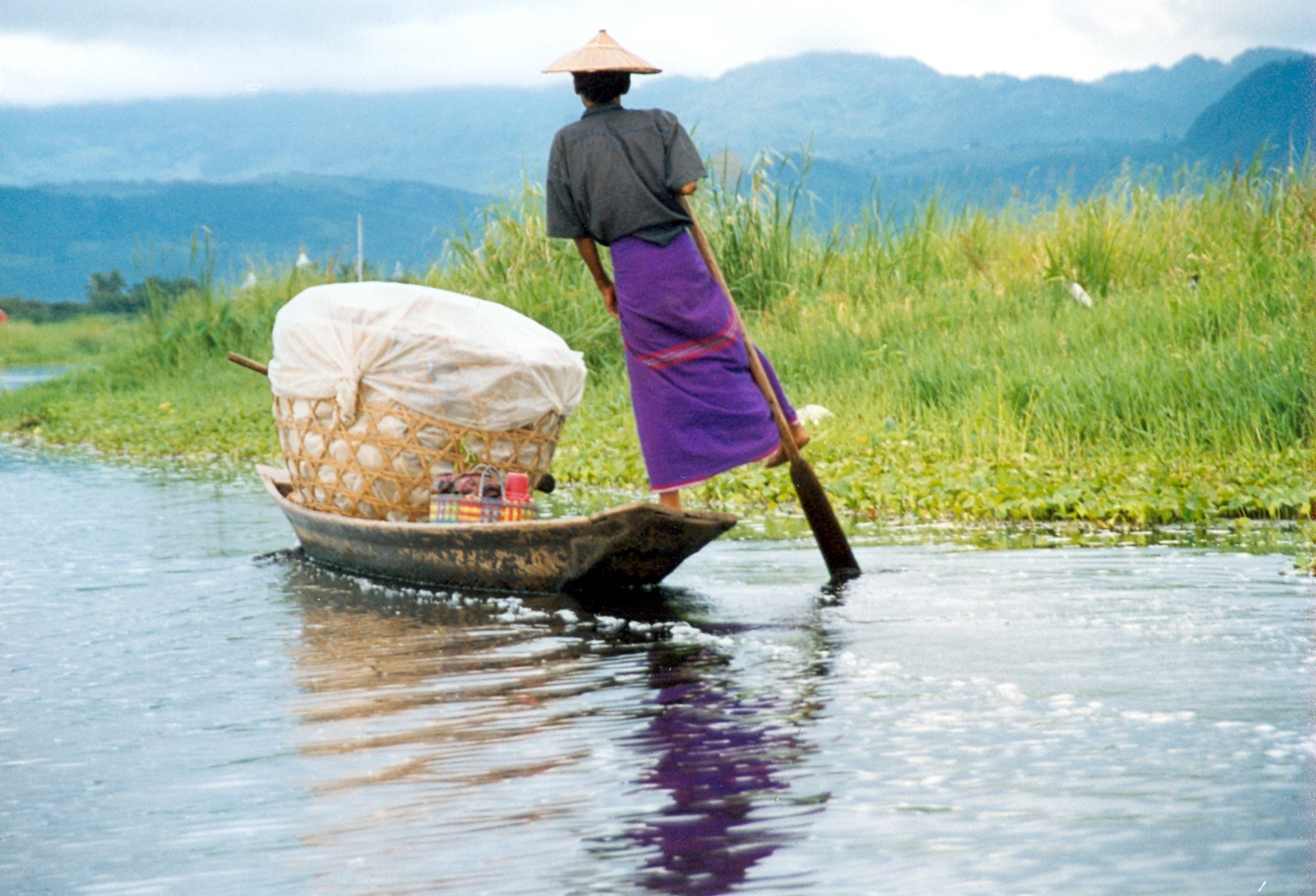 Leg rowing, Inle Lake, Burma.